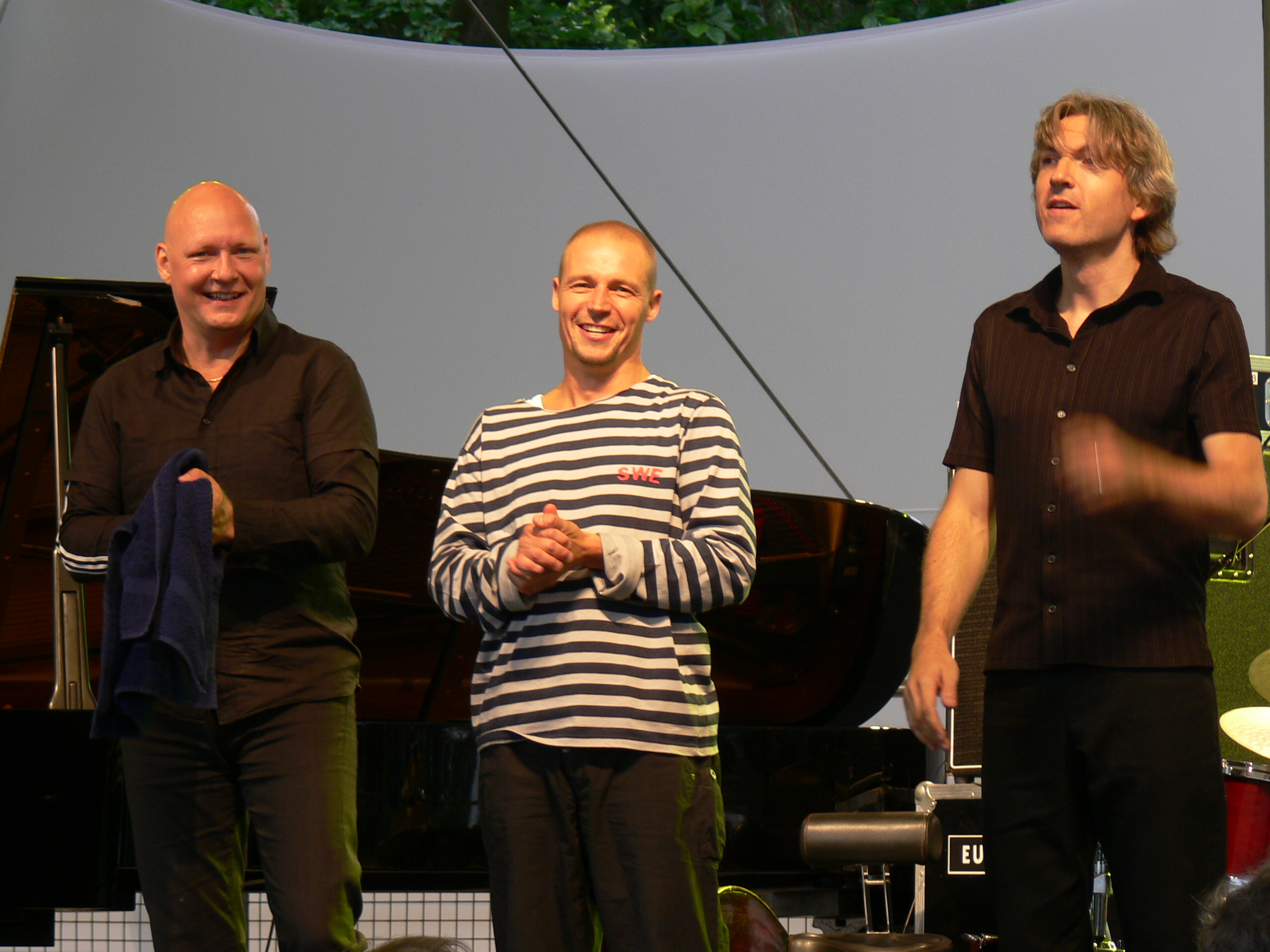 Esbjörn Svensson Trio in concert, Jazz Festival Paris 2007, parc floral – f.l.t.r: Dan Berglund, Esbjörn Svensson, Magnus Öström